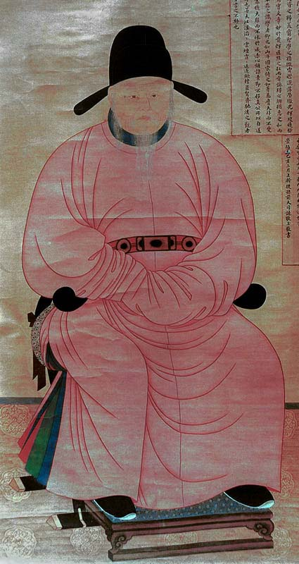 Portrait of Yi Saek. National treasure 1215. (A 1654 copy by Kim Myeong-guk exists also)